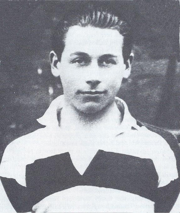 Kevin Barry in football jersey, head and shoulders - taken from original oval portrait - details at National Library of Ireland